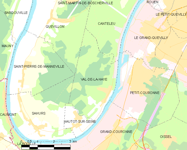 Map of French municipality Val-de-la-Haye